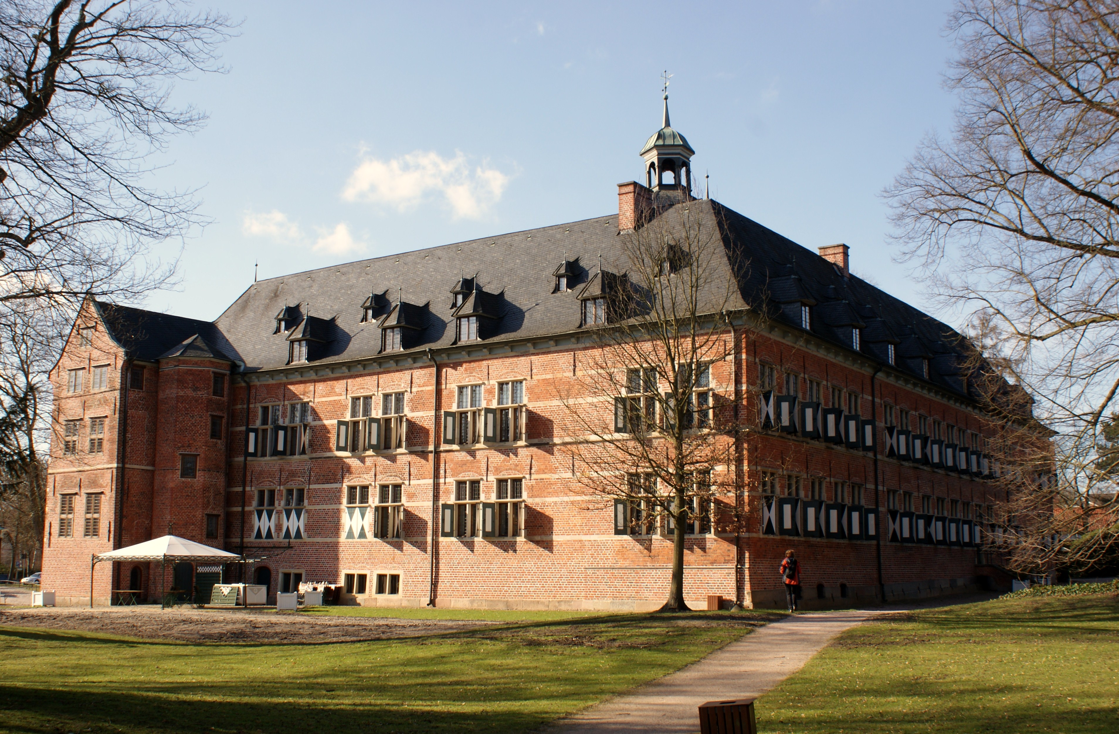 Reinbek Castle, southern view